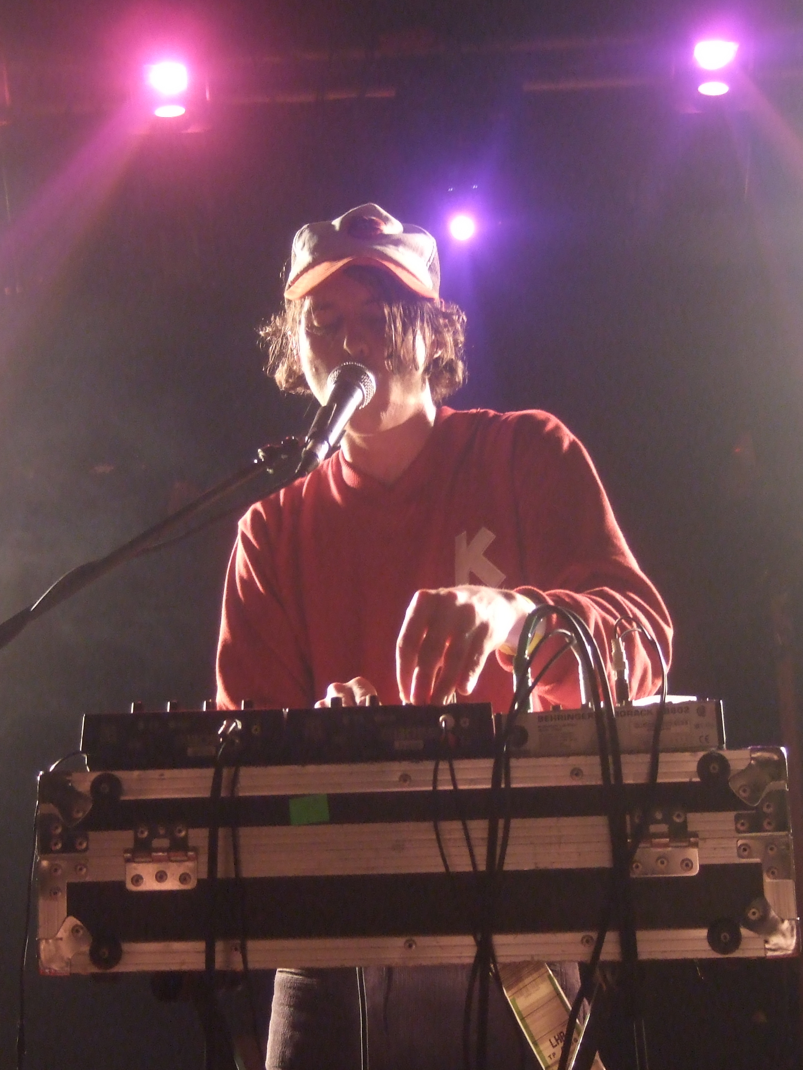 Panda Bear London 93 Feet East